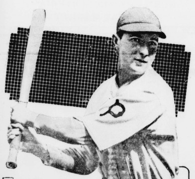 Professional baseball player Paul Waner